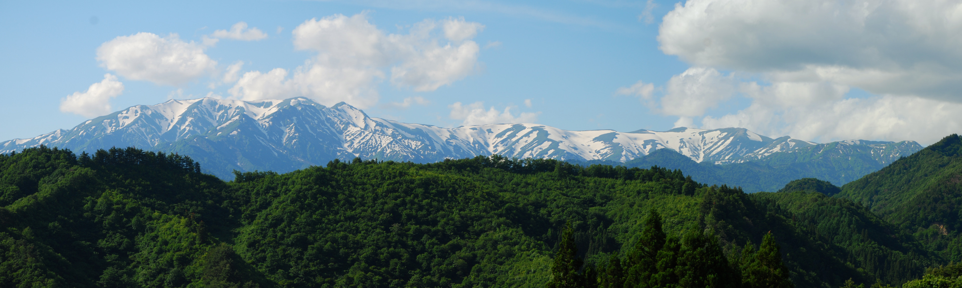 Iide Mountains as seen from Nishiaizu Town, Fukushima Prefecture